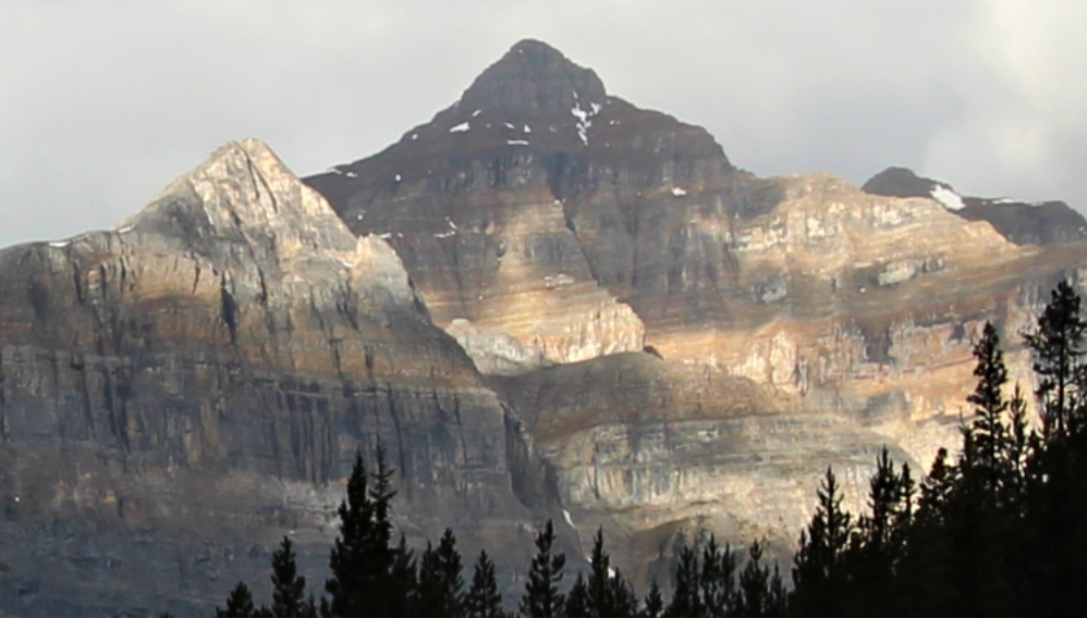 Mt. Whymper in Canadian Rockies